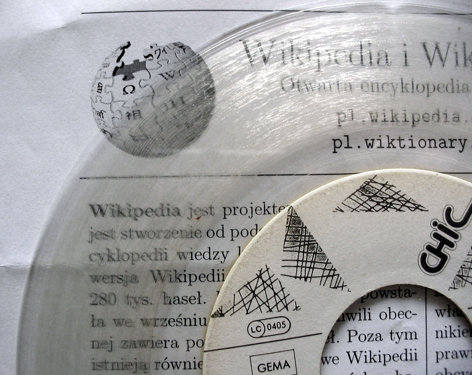 unusual gramophone records; transparent single Fly to Moscow by Modern Trouble